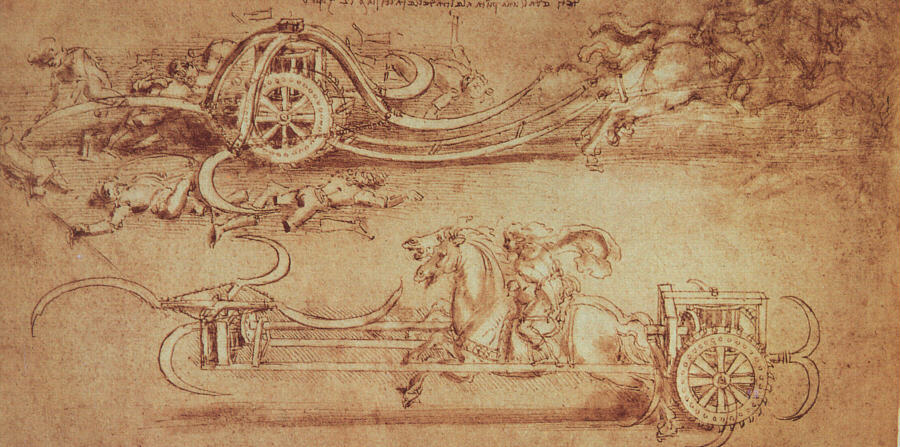 Drawings of a scythed chariot by da Vinci. Held by the National Gallery, Turin, Italy.